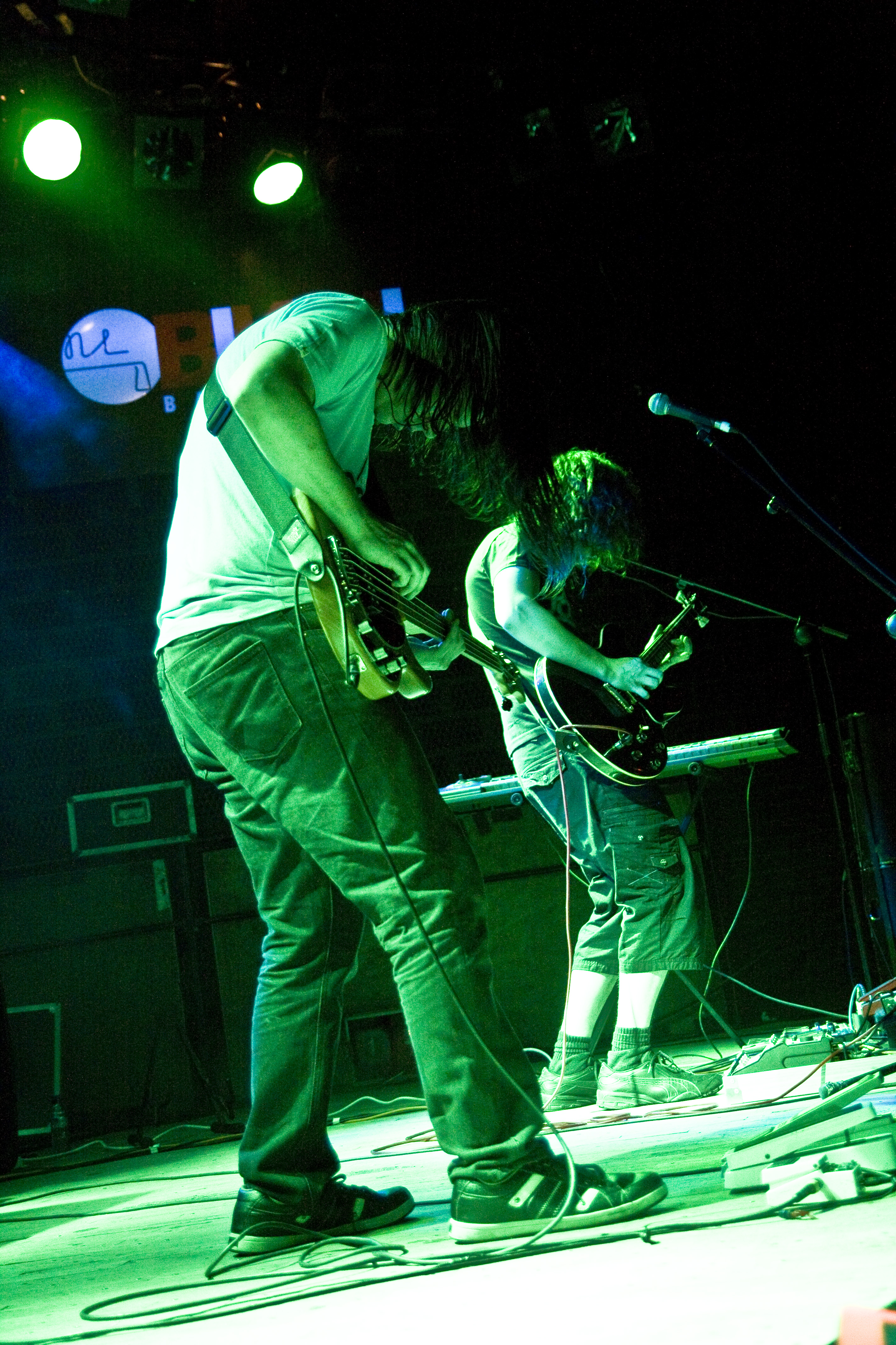 God Is an Astronaut playing in the Sala Bikini, Barcelona, Spain.